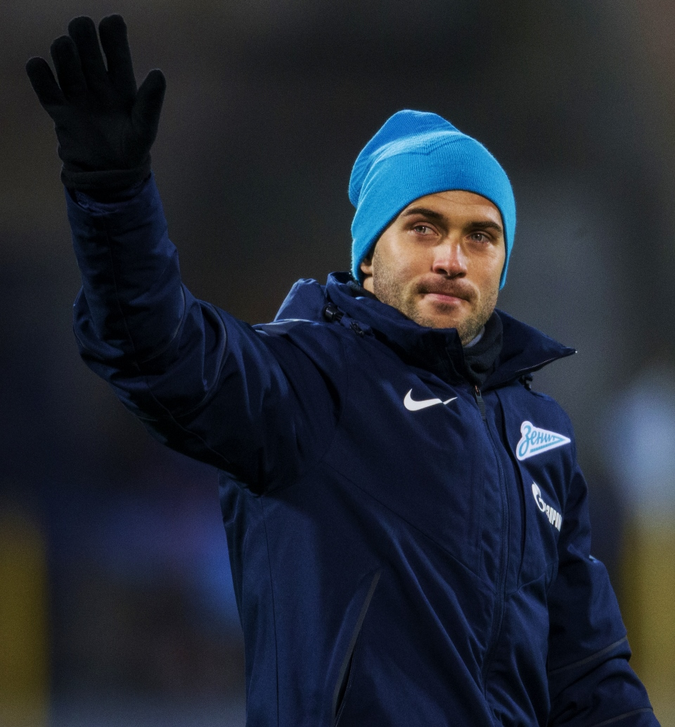 Aleksandr Kerzhakov